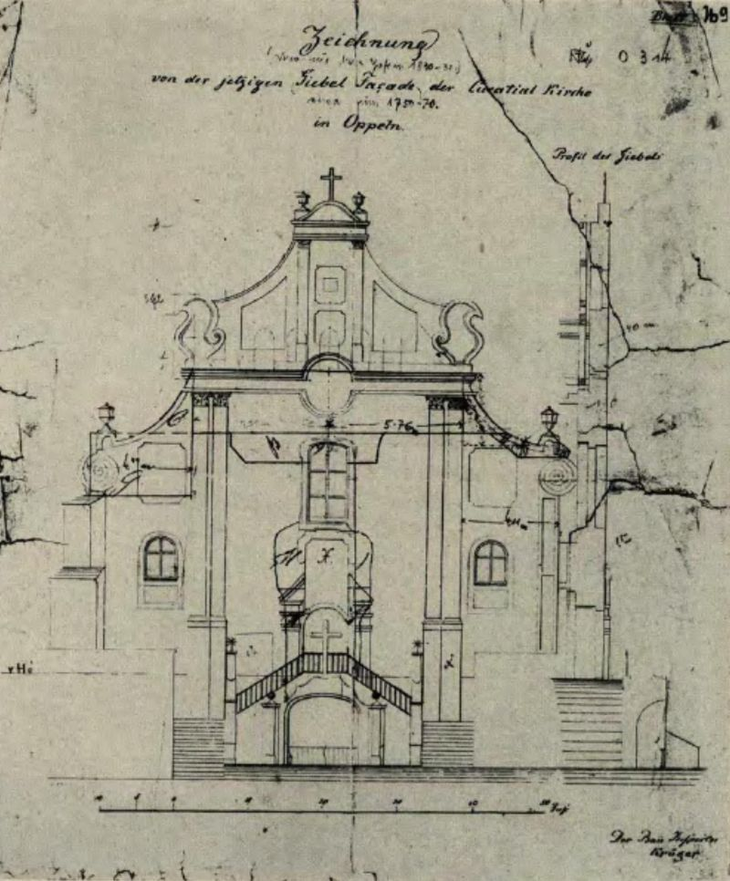 an old drawing of Bergelkirche in Opole